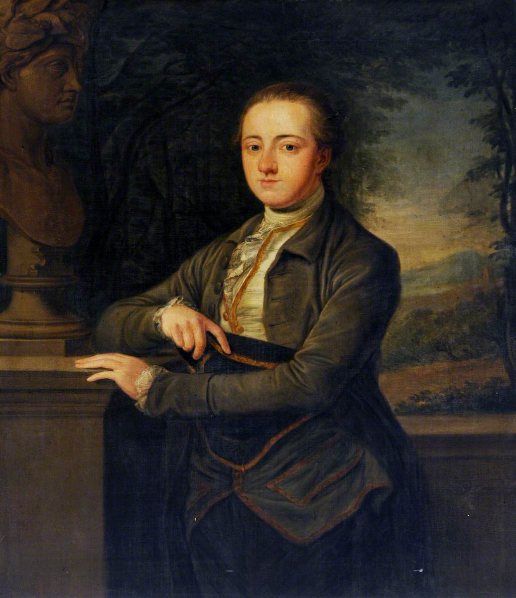 Three-quarter left side portrait of Lord George Augustus Henry Cavendish (1754–1834), 1st Earl of Burlington. Oil on canvas, 1105 x 875 mm (43 ½ x 34 ½ in), Anonymous, British (English) School, National Trust, Hardwick Hall, Derbyshire, #NT 1129261.